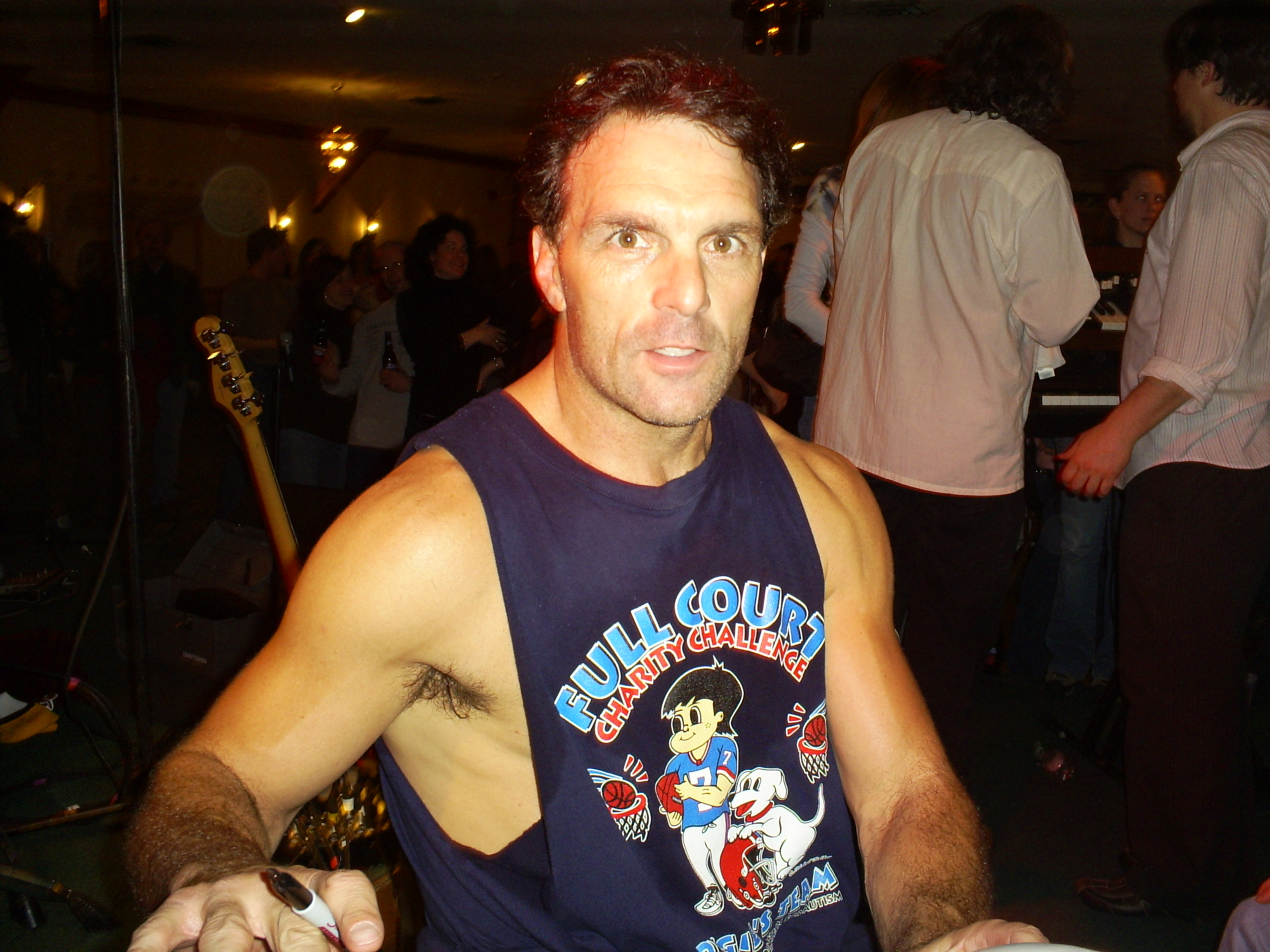 Photo by Craig Michaud. This was taken in Hollis, New Hampshire at the Brad Delp Tribute Concert after Delp's death. Delp was the lead singer of the band Boston. Doug and his brother have a band called the Flutie Brothers Band and they played in tribute along with some other bands. Doug is the drummer for the band.